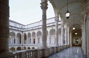 Rectorate Palace of the University of Turin